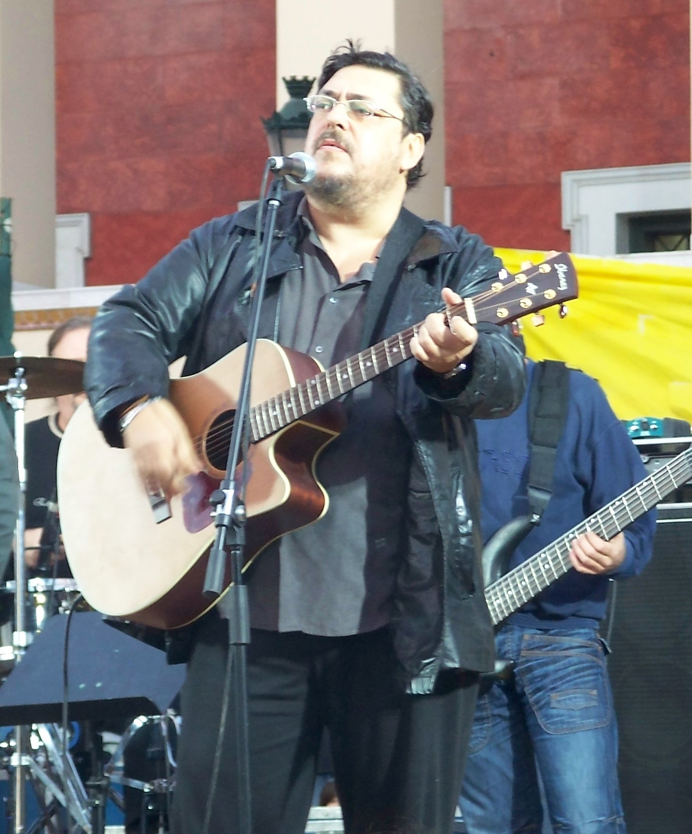 Greek singer Lavrentis Maxairitsas.